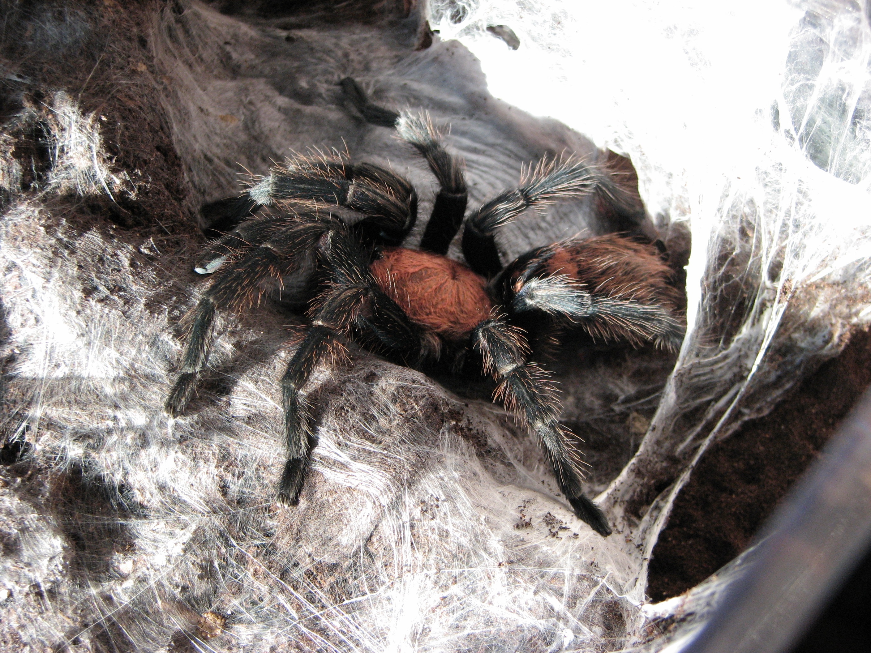 Davus fasciatus, adult female after moulting.